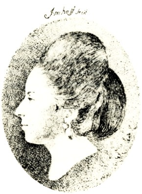 Luise von Imhoff, mother of German writer Amalie von Imhoff.